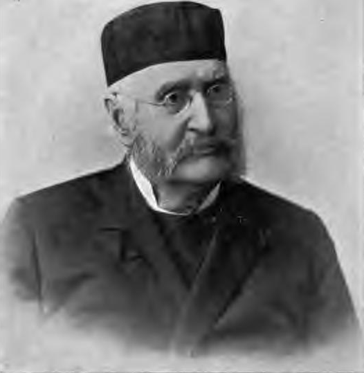 Portrait of geologist and medical professor Joseph Granville Norwood